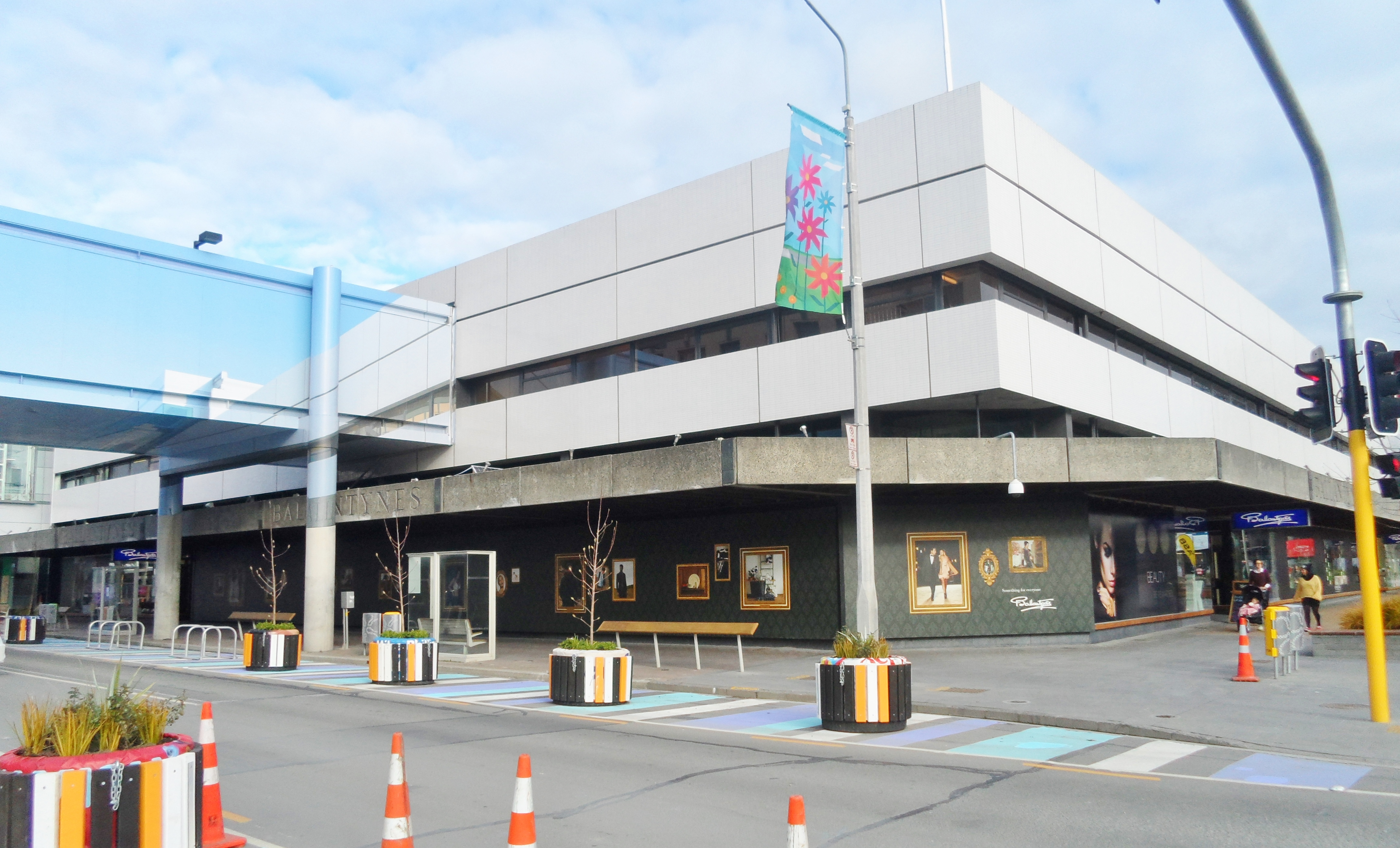 Flagship Christchurch branch of local department store Ballantynes on the corners of Colombo Street and Cashel Street in 2013.